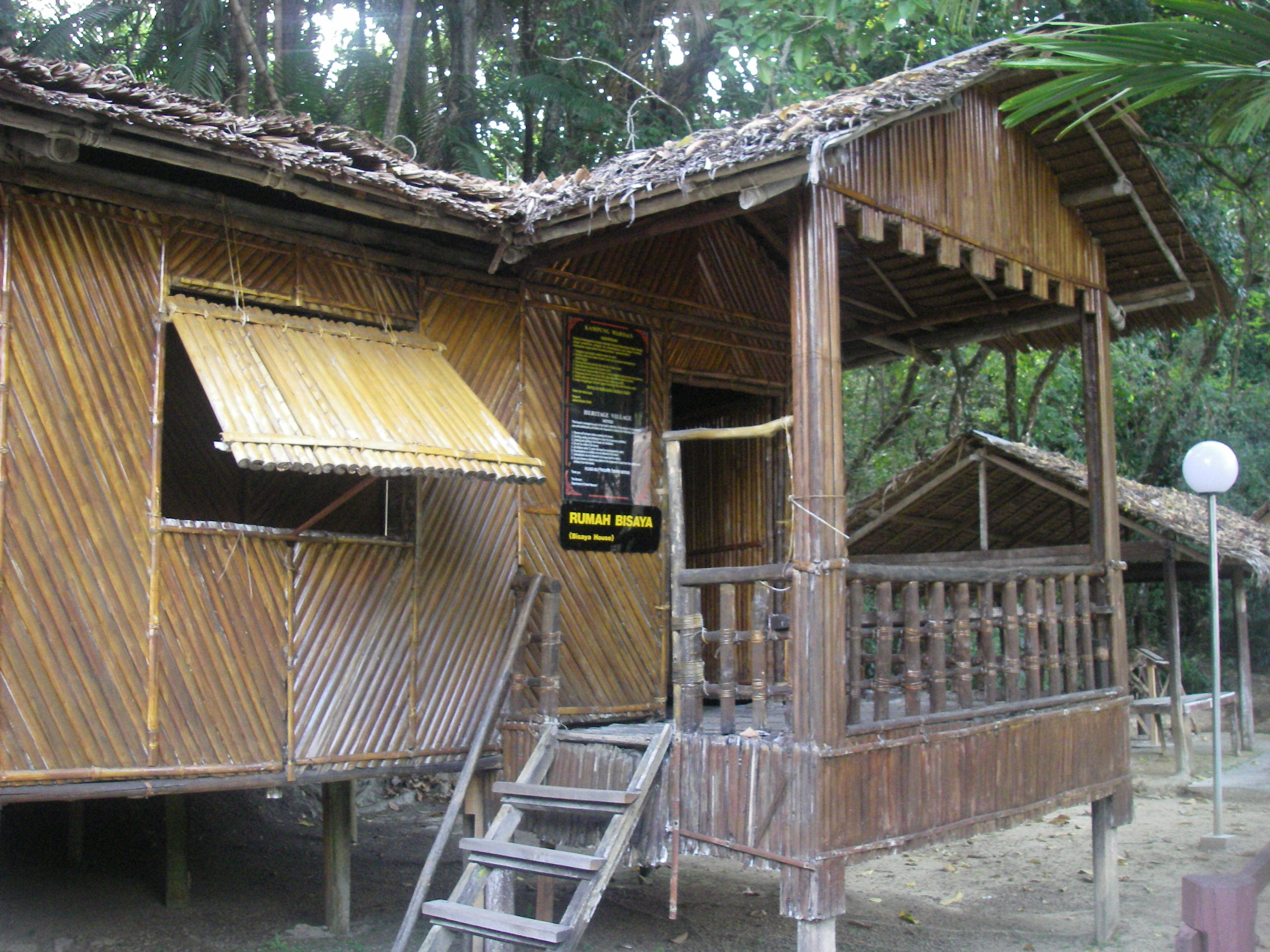 The rehabilitation of a traditional Bisaya house in the Heritage Village of Kota Kinabalu, Sabah.